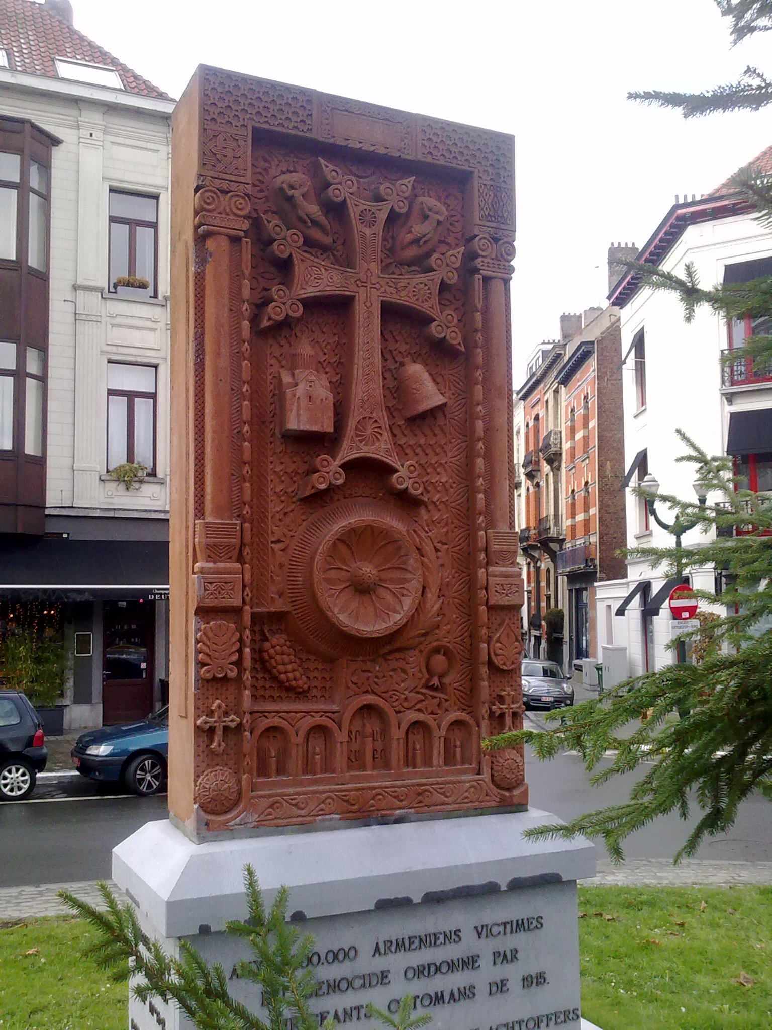 Monument eretcted to commemorate the Armenian genocide. Washington street, Brussels.